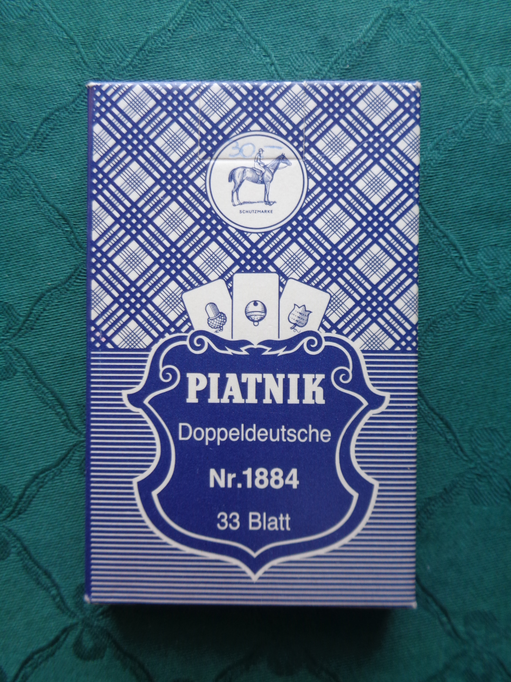 Pack of Austrian playing cards - Piatnik Doppeldeutsche No. 1884